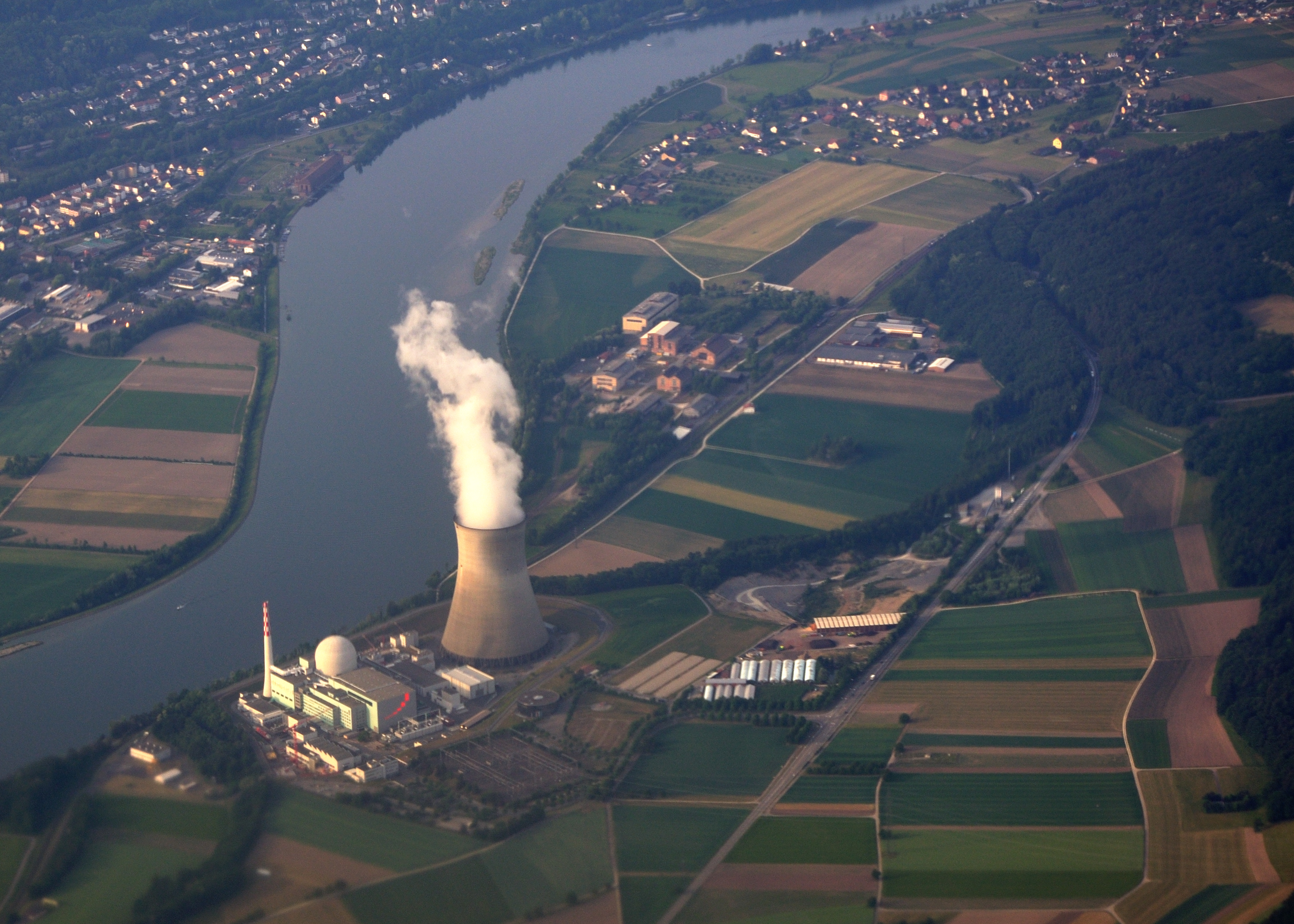 Switzerland, Aargau, aerial view of the nuclear power plant in Leibstadt